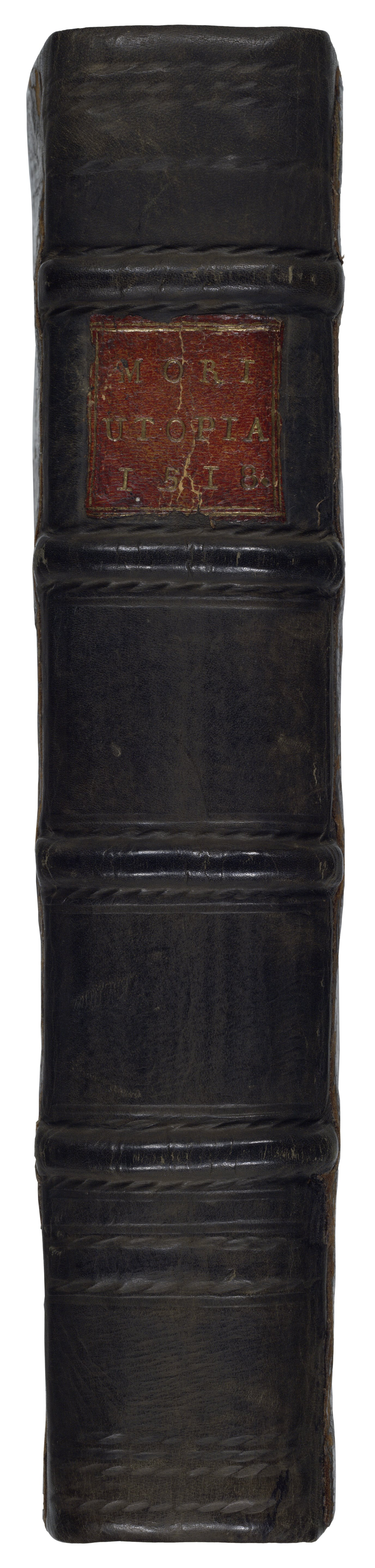 This is the back of 1518 Thomas More's Utopia copy owned by The Folger Shakespeare Library. "Mori Utopia 1518" is written on the label